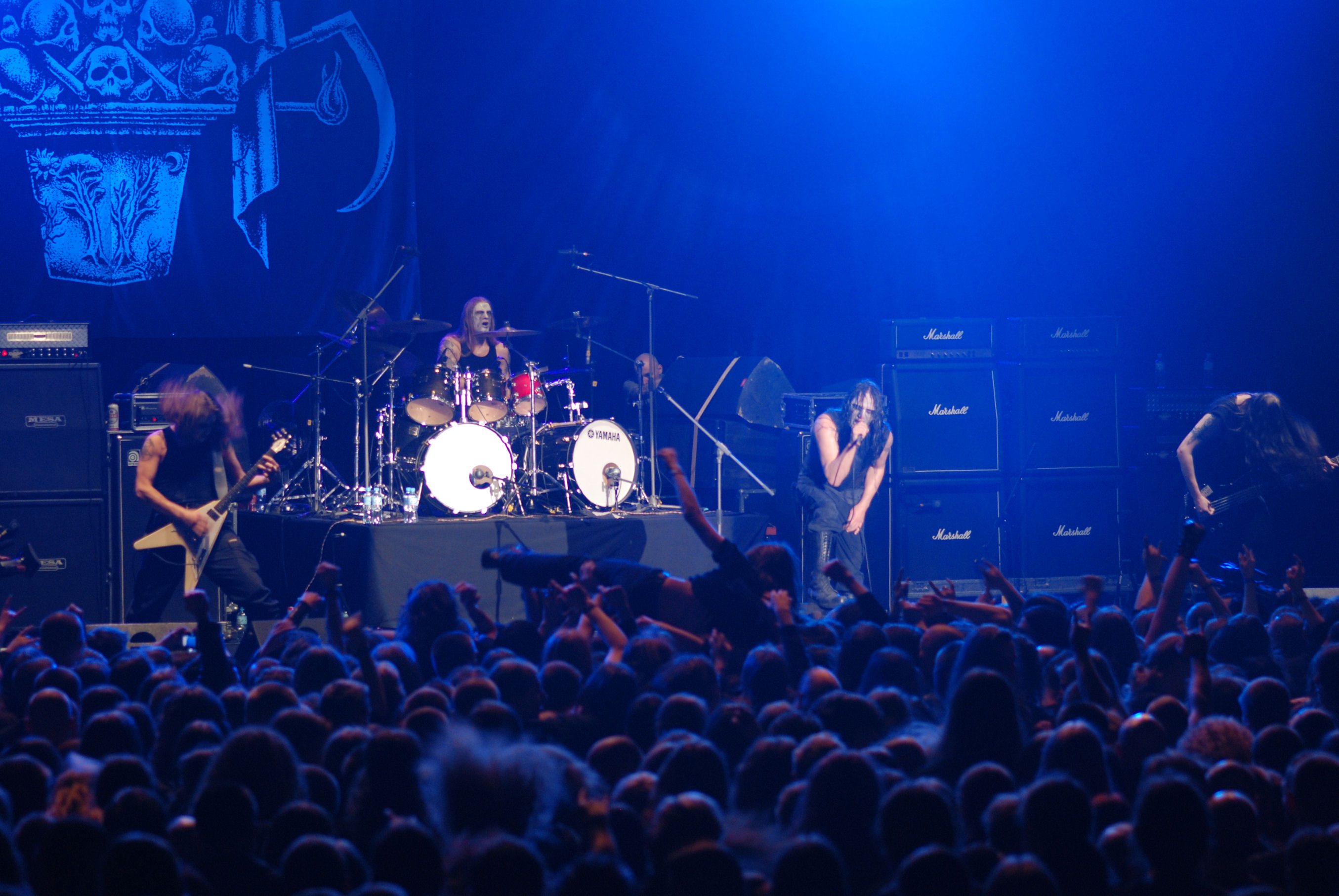 Marduk during Metalmania 2008 festival